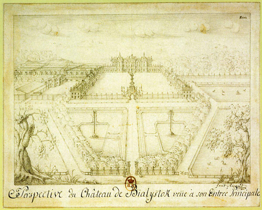 Baroque "Cour d'honneur" of the Branicki Palace, in Białystok, Poland. 18th-century print by architect Pierre Ricaud de Tirregaille (French).